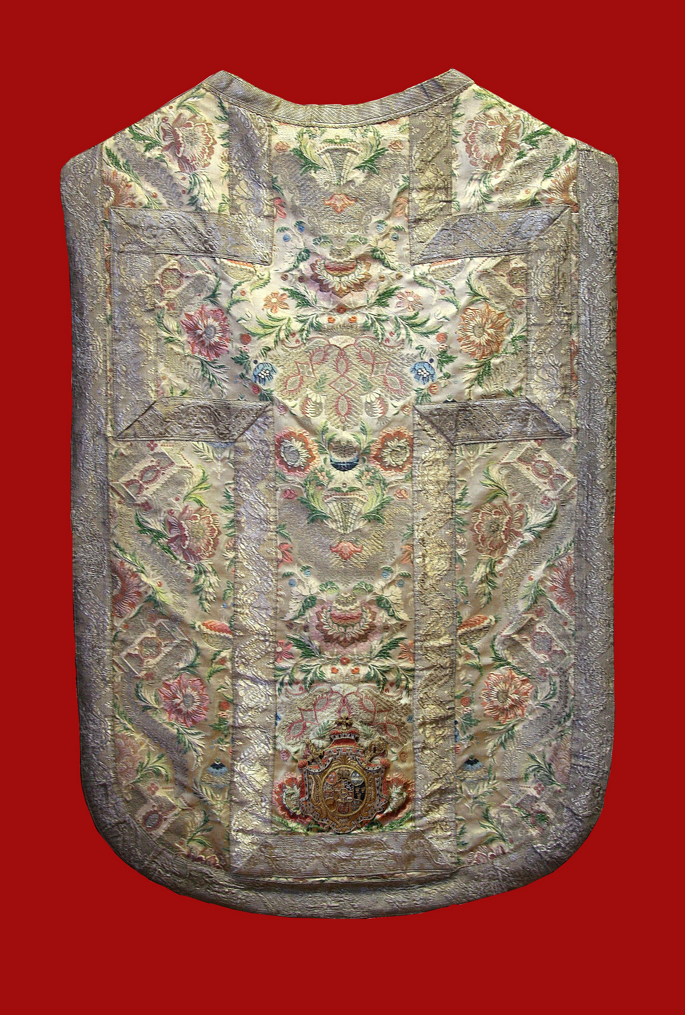 Chasuble of the Trier archbishop and elector Franz Georg von Schönborn in the parish church Saint Mauritius Kärlich